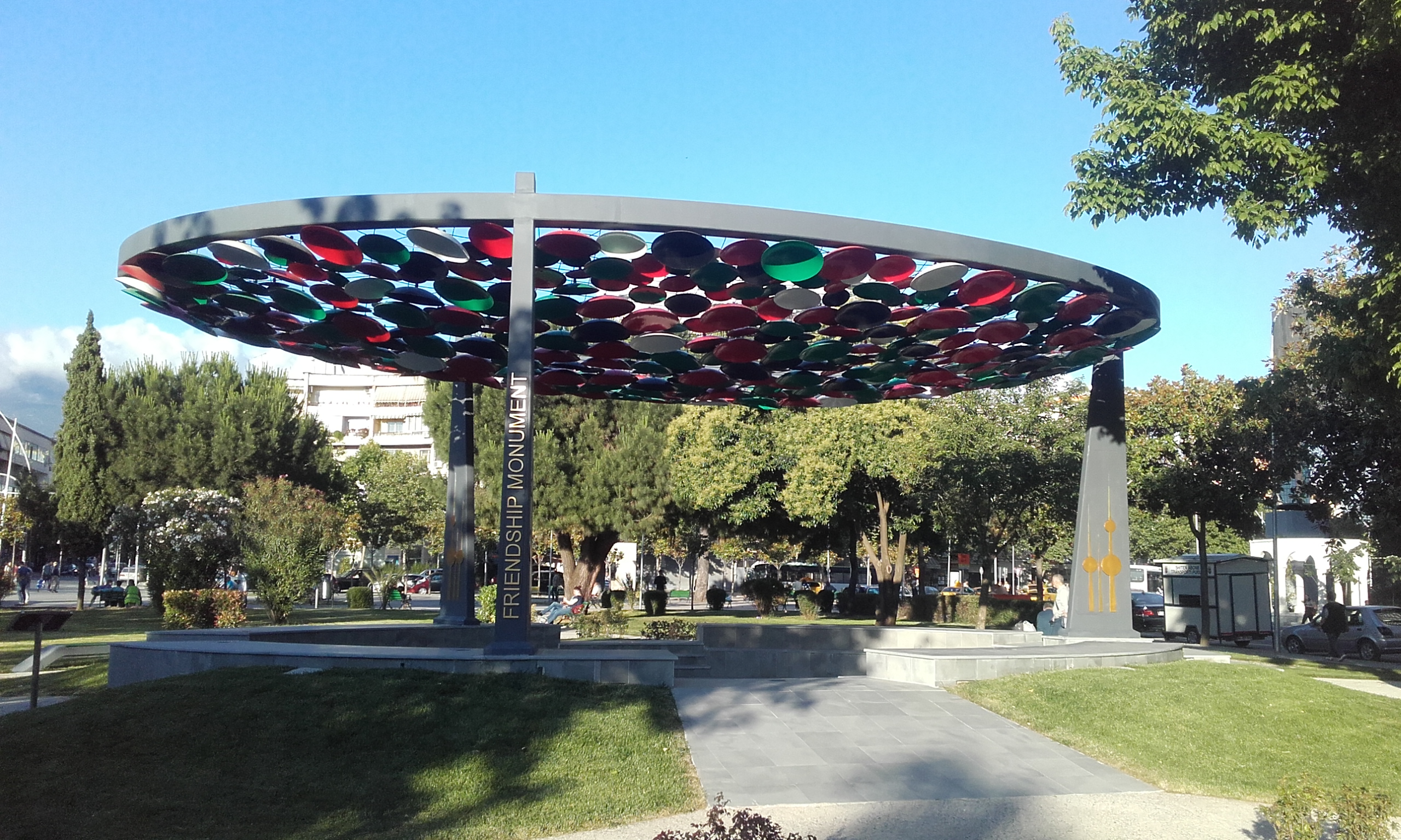 A monument of culture in Albania in honour of the friendship between the Albanian and Kuwait governments. It is located in Tirana